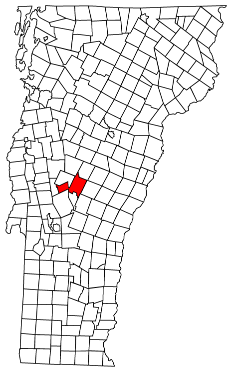 Description: Map of Vermont towns with Rochester highlighted Source: Map created by Jared C. Benedict on 26 March 2004. Copyright: © Jared C. Benedict.